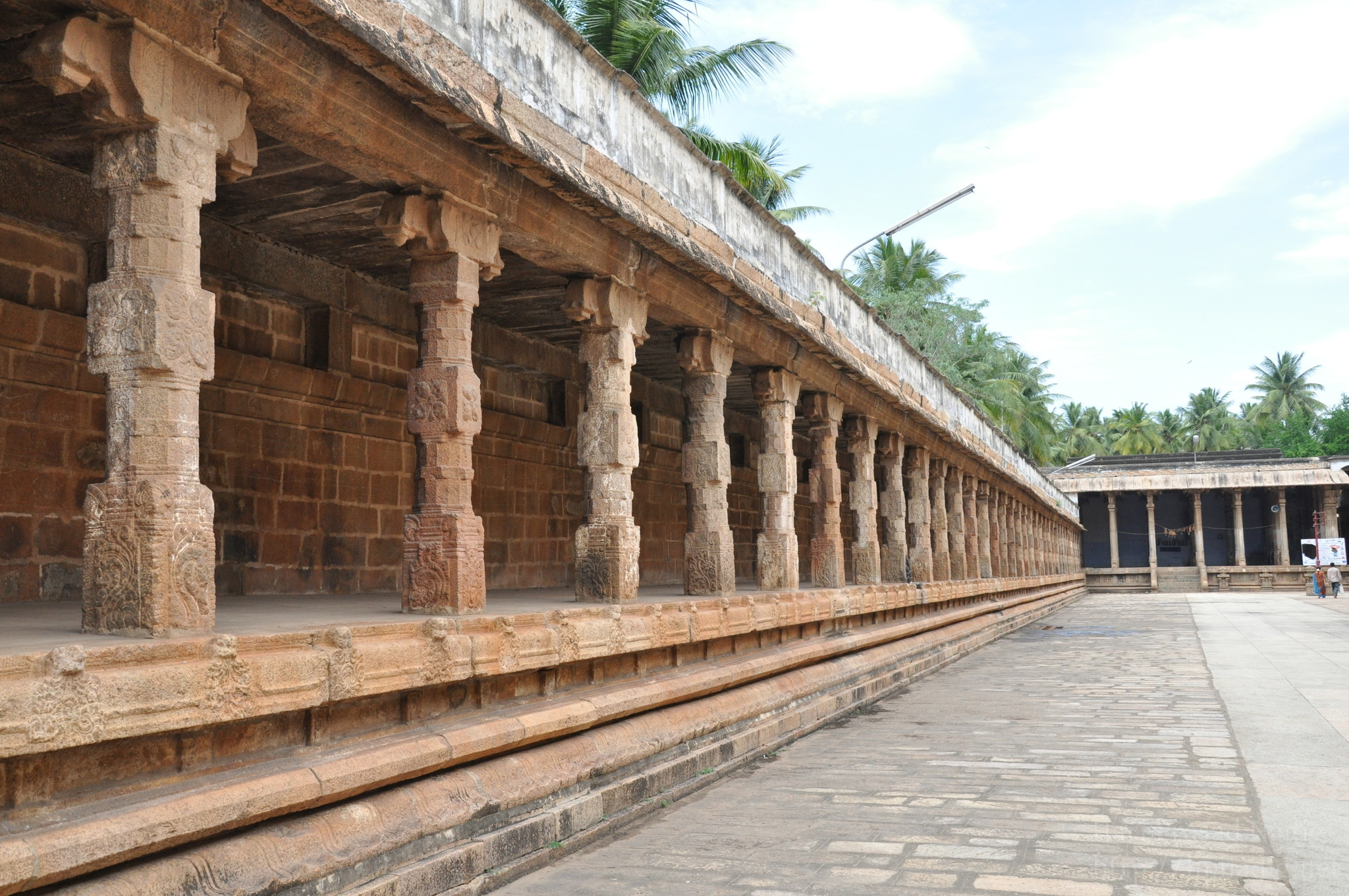 There's an eerie atmosphere when you walk in the corridors surrounding sanctum sanctorum of this temple. Mantapas or Mandapams built here and there suggest that these corridors were used for cultural programs during the helm of cultural, religious activity here.